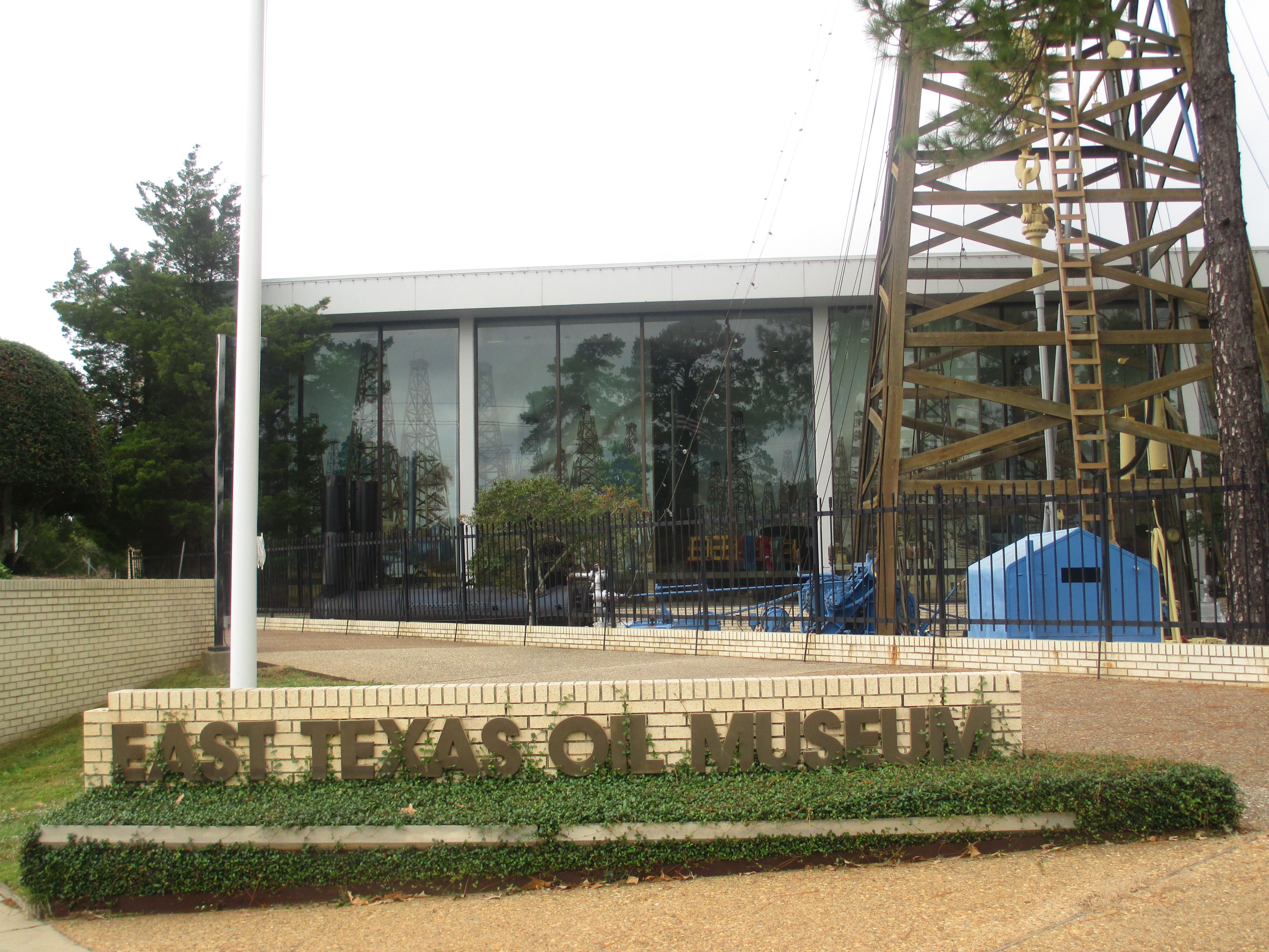 I took photo with Canon camera of outside of East Texas Oil Museum.